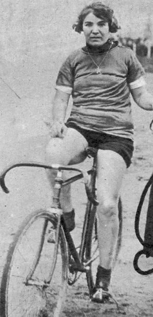 The Italian cyclist Alfonsina Morini Strada, the first woman to ride in the Giro d'Italia in 1924